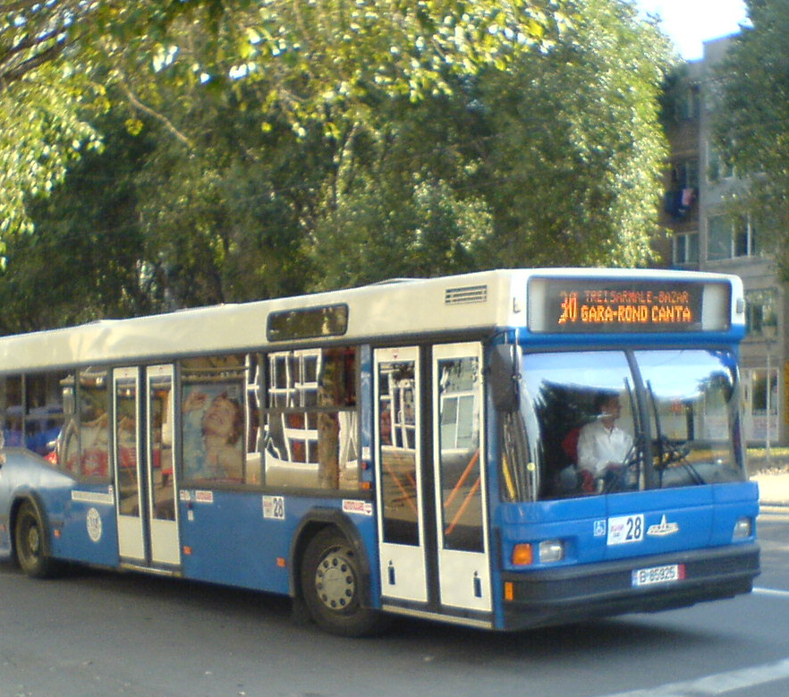 MAZ-103 city bus in Iasi, Romania. Photo taken by user: O mores.